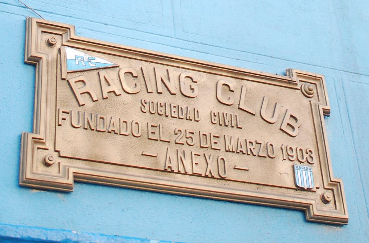 Plaque commemorating the date of establishment of Argentine Racing Club de Avellaneda. The plaque was placed on a wall of Nogoyá street in the city of Buenos Aires.